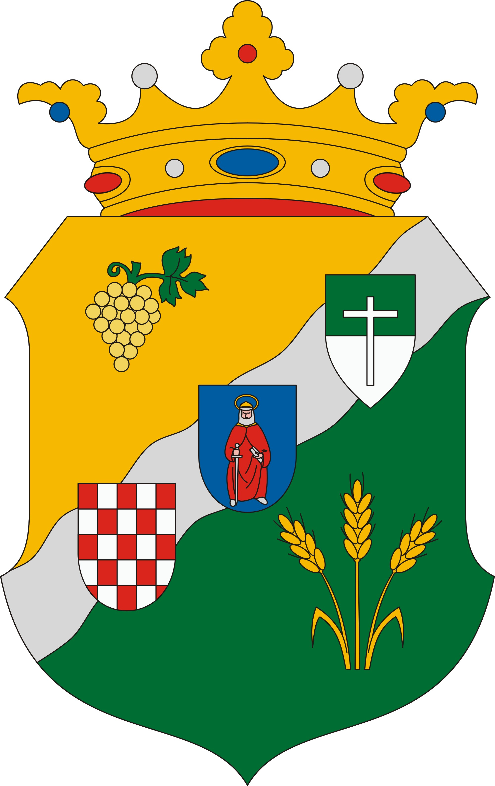 Coat of arms of Csikéria, Hungary